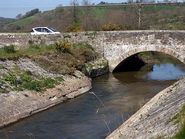 Tregony Bridge. The river Fal was first crossed here in the 14th century. According to the plague this bridge was completed in 1893.